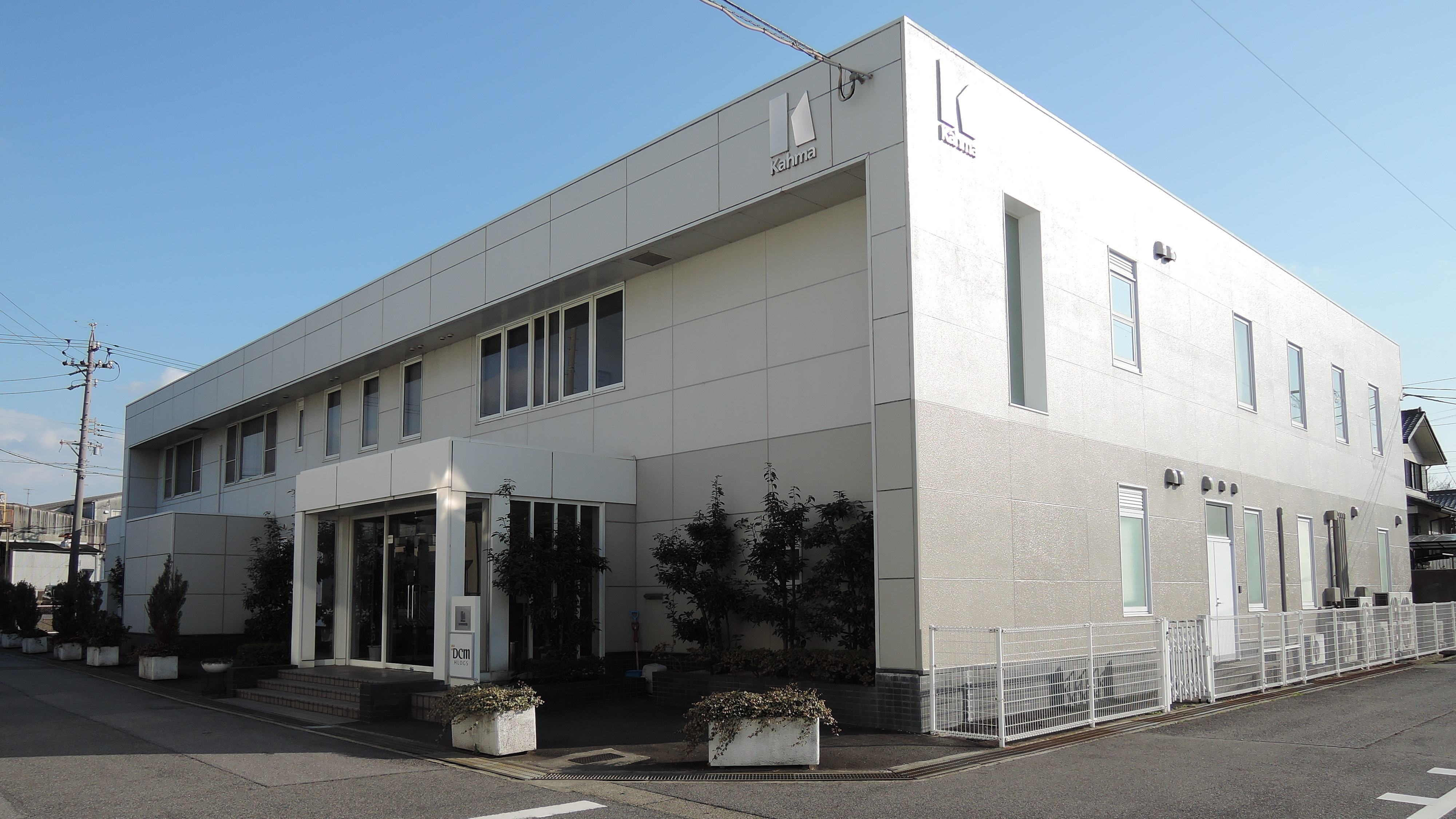 Headquarters of KAHMA CO.,LTD.,Aichi prefecture,Japan